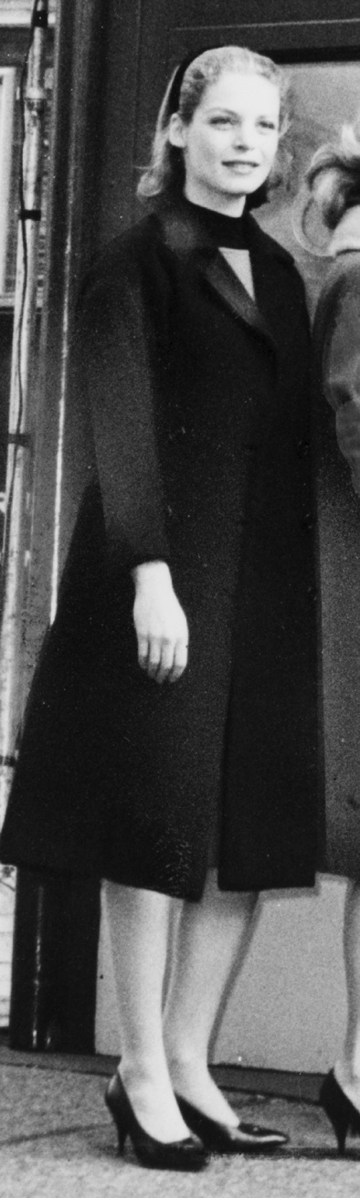 Millette Alexander, cropped from Image:Times Square giant mailbox NYWTS.jpg